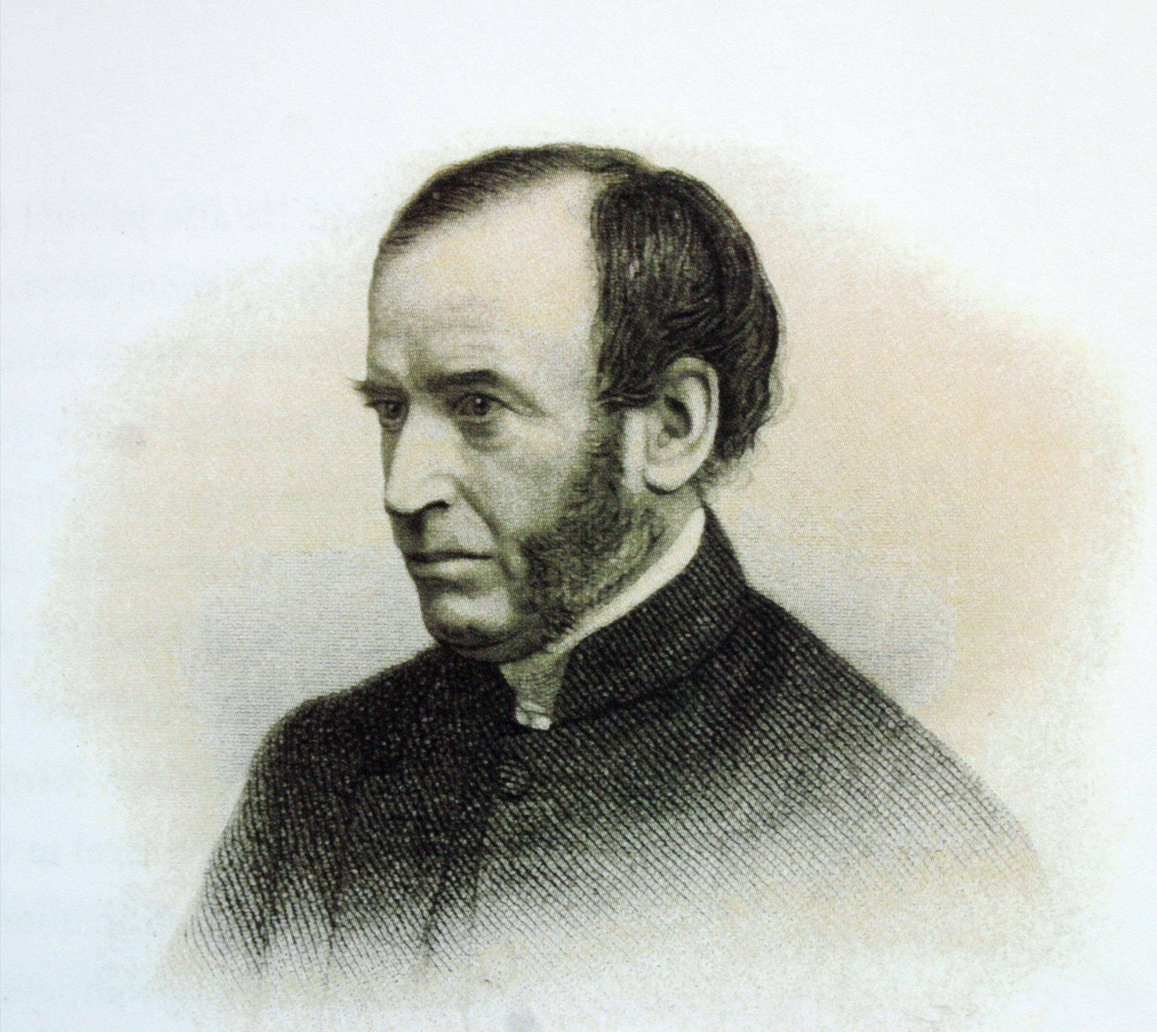 Portrait of Robert Gray, first bishop of Cape Town